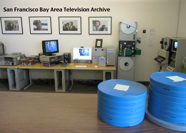 Photo of the San Francisco Bay Area Television Archive.